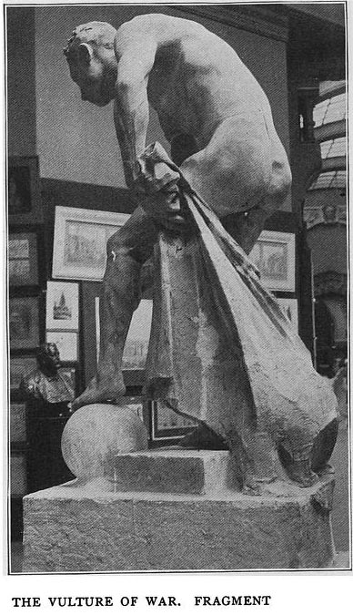 "The Vulture of War. Fragment" (1896). On exhibition at the Pennsylvania Academy of the Fine Arts in 1898.